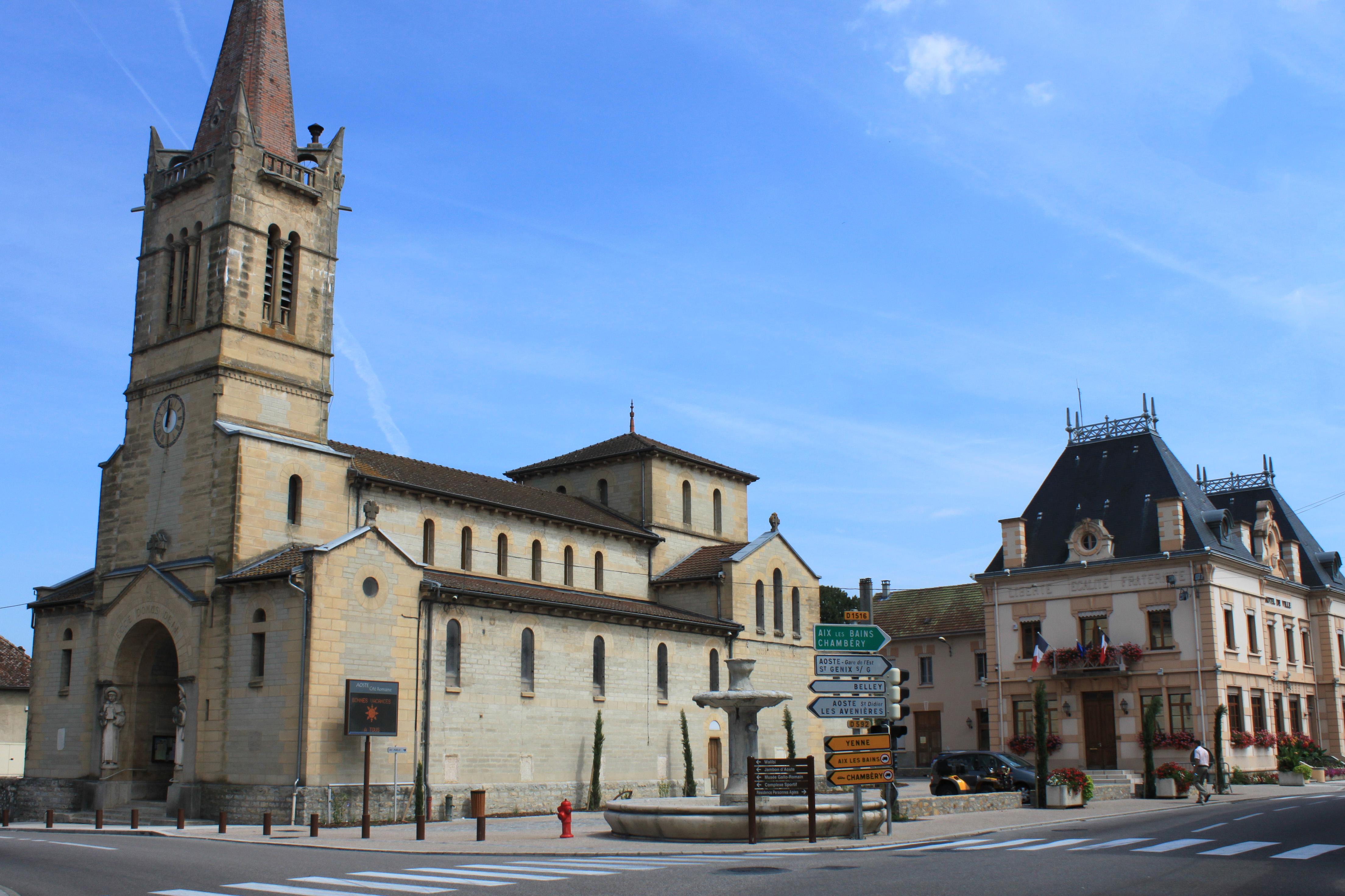 Church and city hall of Aoste, Isère